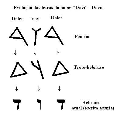 Letters used to write the old spelling of the word "David" (דוד instead of דויד) in old Hebrew script and later Aramaic-influenced script